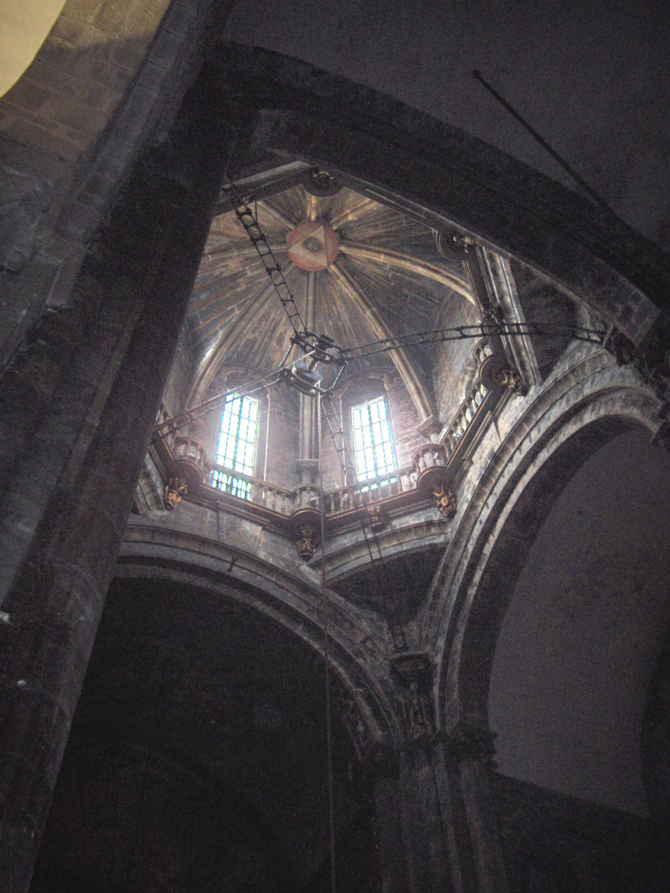 Dome with pulley mechanism for the butafumeiro; cathedral of Santiago de Compostela, Spain